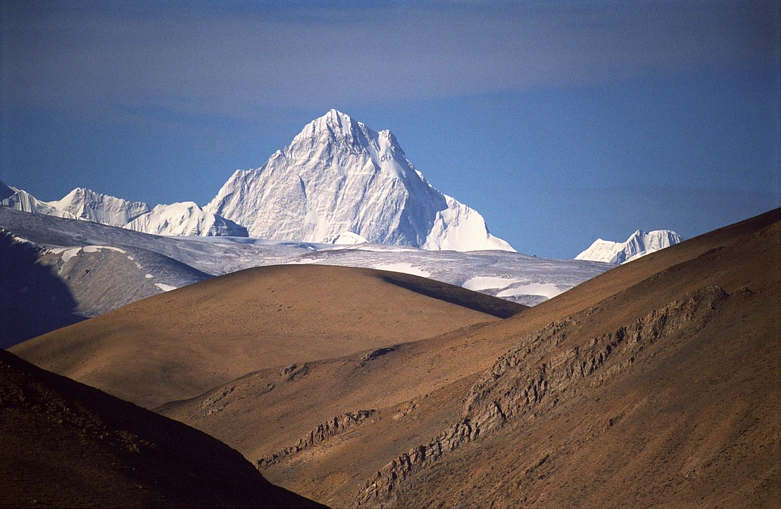 Not known name of Mt